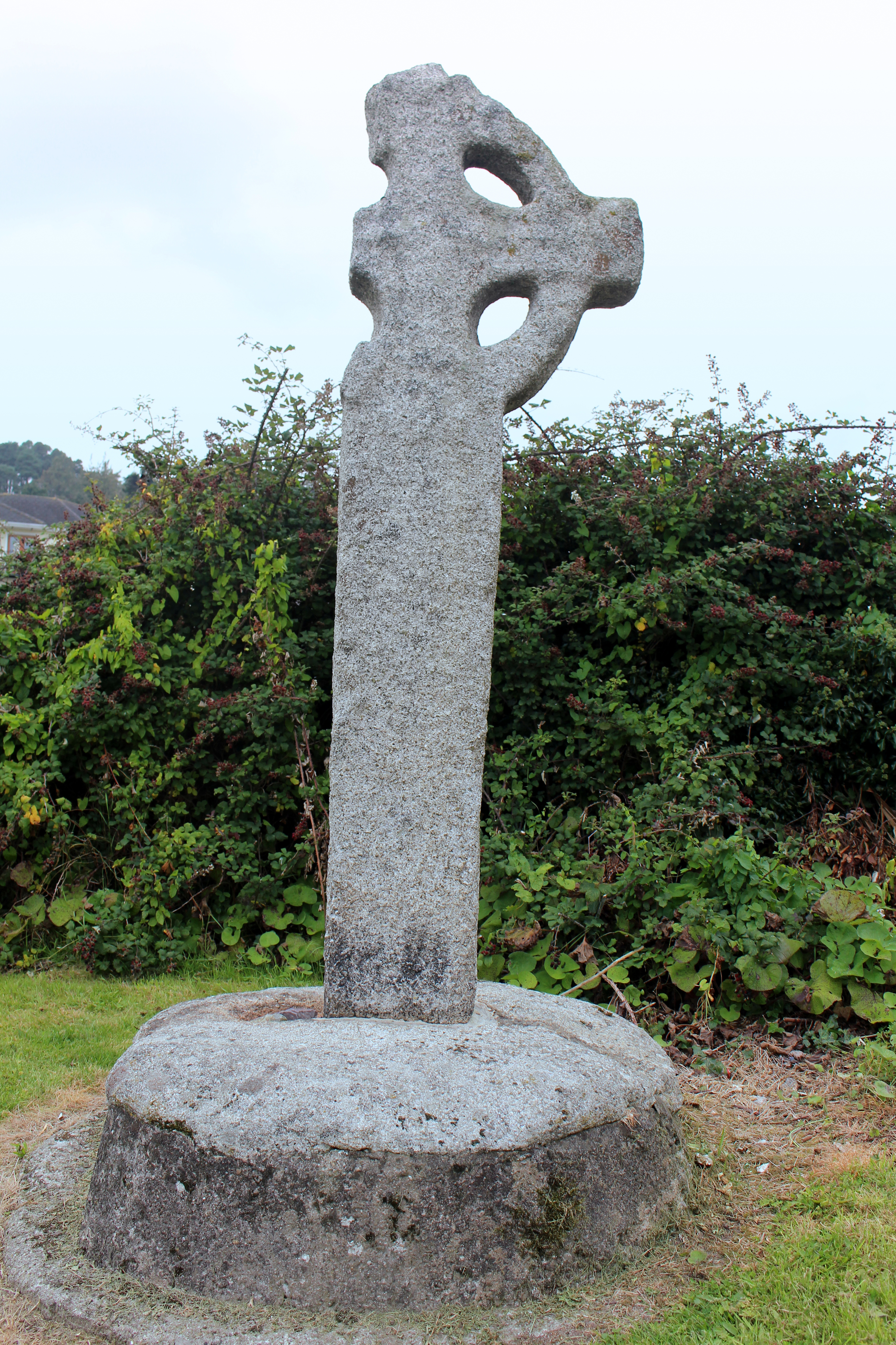 Kilgobbin Cross outside the ruined church at Kilgobbin/Stepaside County Dublin